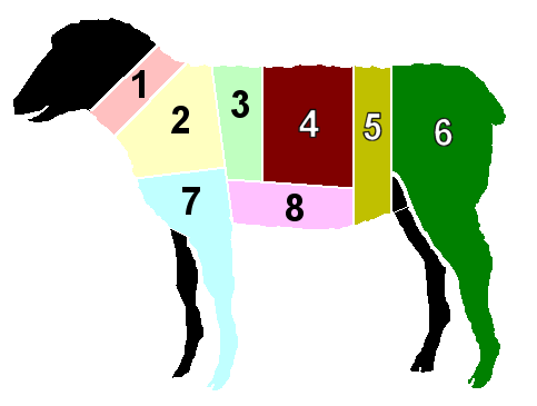 Traditional British cuts of Lamb: 1. Scrag end (of Neck) 2. Middle neck 3. Best end (of neck) 4. Loin 5. Chump (and chump chops) 6. Leg 7. Shoulder 8. Breast.